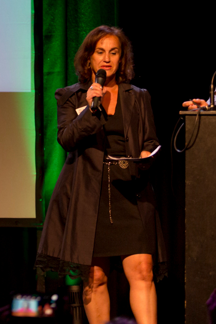 Webmontag Frankfurt #100, #Ignite & Jubiläum Foto von Paul Dylla photography-pauldylla.de/ Instagram: pauldylla